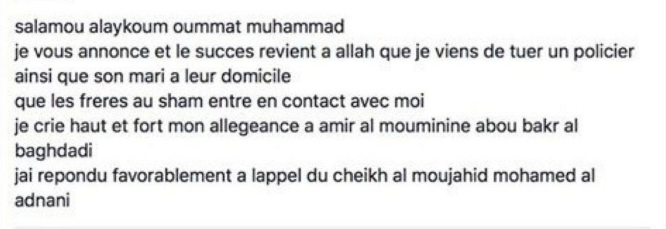 Claim by Larrossi Abballa of the June 2016 Magnanville stabbing.